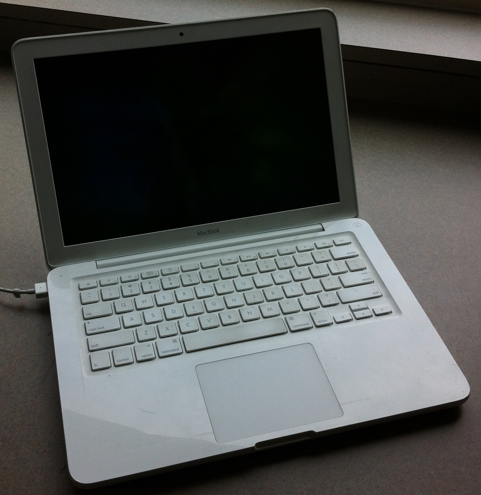 Kind of MacBooks issued in the privacy case, Robbins v LMSD. Taken of actual LMSD computer.